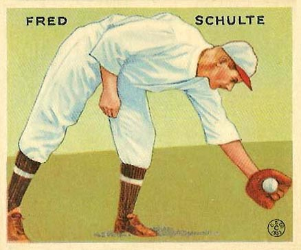 1933 Goudey baseball card of Fred Schulte of the Washington Senators #112. PD-not-renewed.